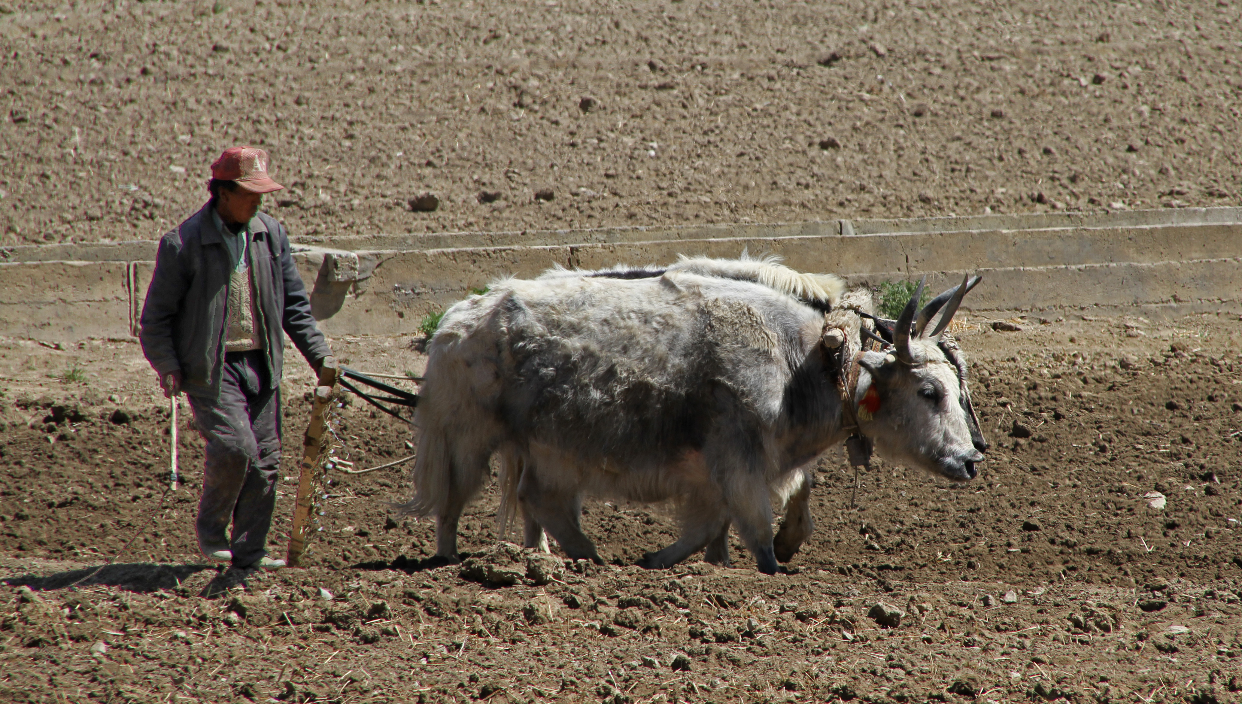 Agriculture in Xigazê prefecture in Tibet